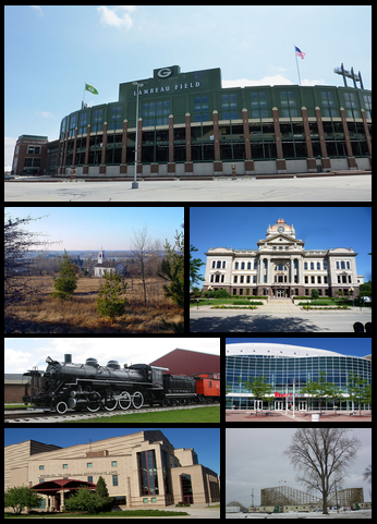 Green Bay photos